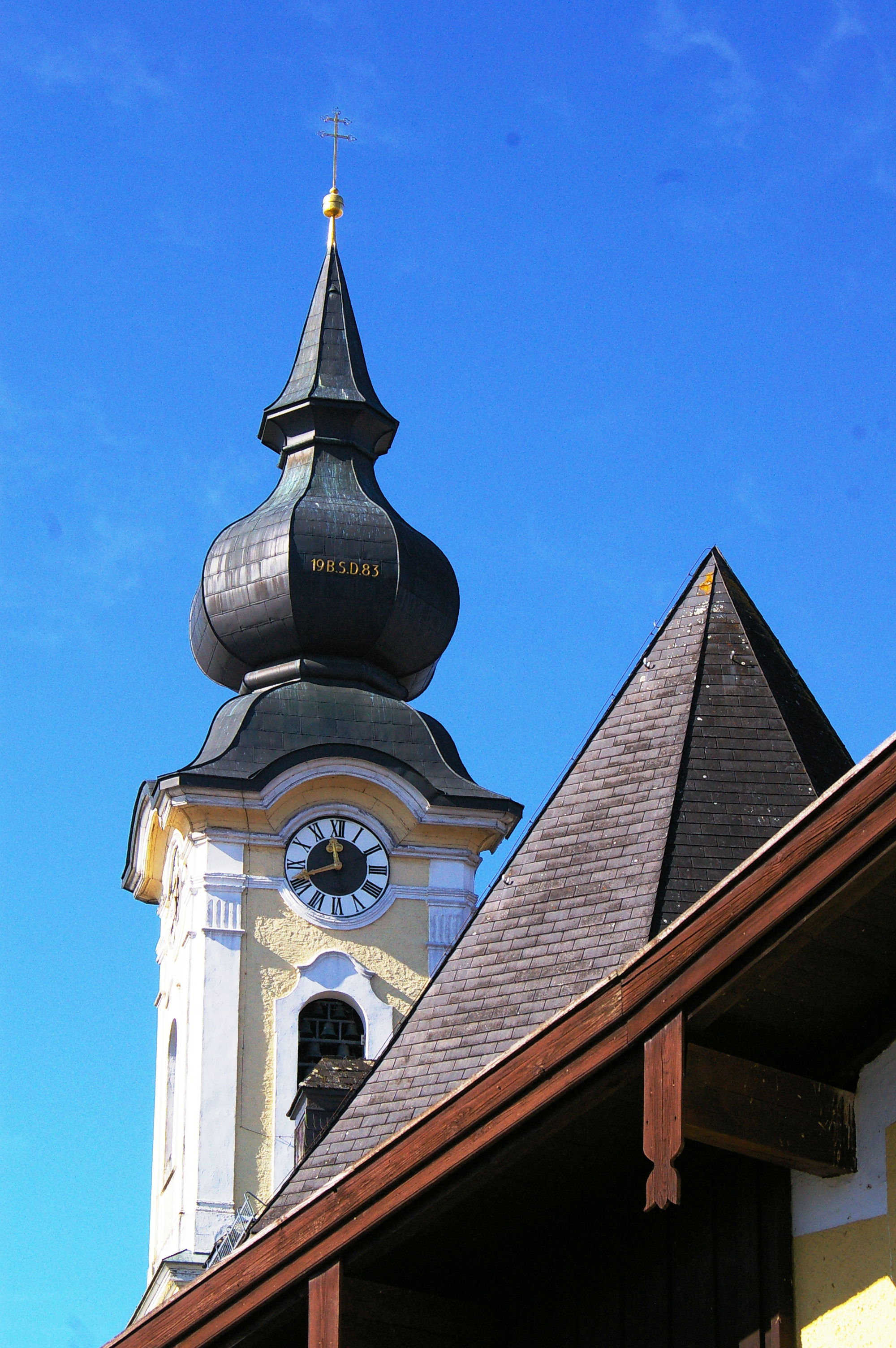 Pilgrimage church Maria im Mösl, Arnsdorf, Salzburg (state)